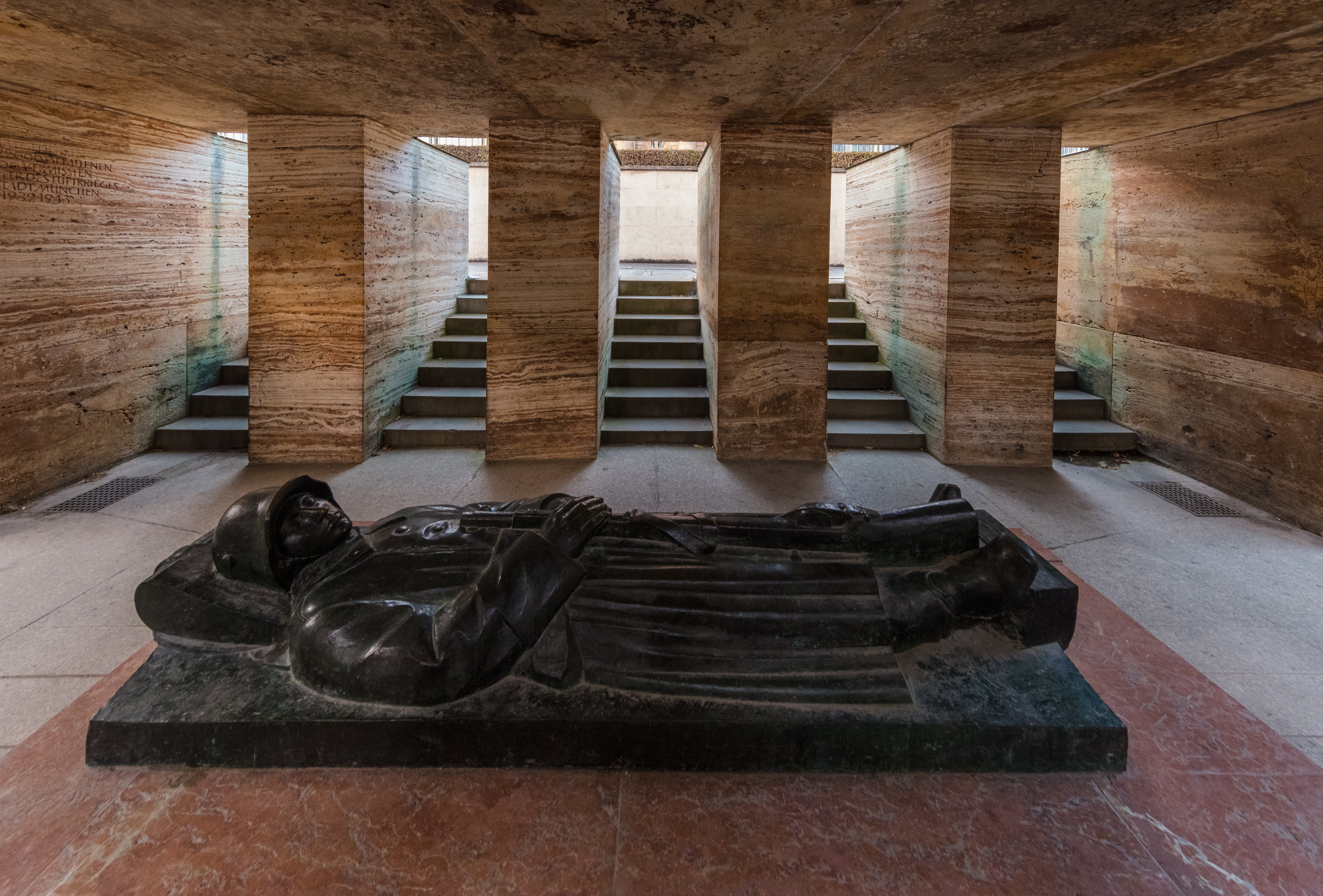 War memorial monument ("Kriegerdenkmal"), Hofgarten, in front of the Bayerische Staatskanzlei, Munich, Germany. The monument is composed of an open crypt, that consist of 12 stone blocks, located in the middle of a rectangular pit. The crypt just contains the statue of a dead soldier, a work of Bernhard Bleeker. The monument was inaugurated in 1924 but the original statue, that was replaced by a bronze cast in 1972, and is now exhibited in the Bavarian Army museum in Ingolstadt.